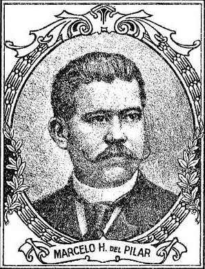 Image from the book "Mga Dakilang Pilipino" by Jose N. Sevilla